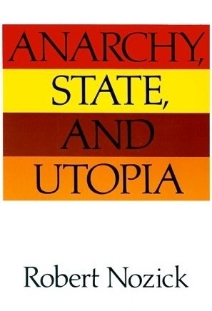 Cover of the book Anarchy, State, and Utopia